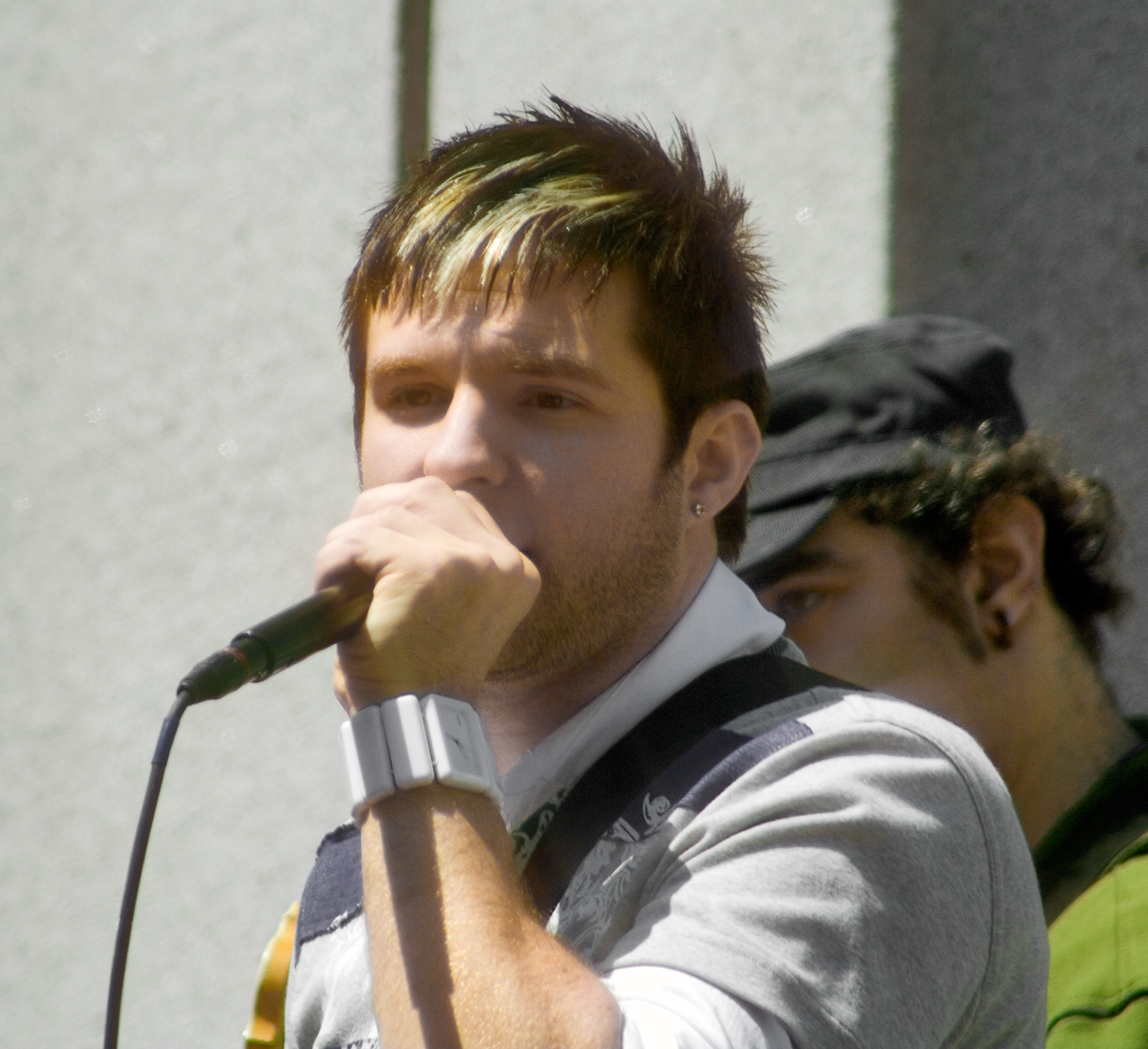 Blake Lewis on his hometown visit from American Idol on May 11 2007 in Downtown Seattle, Washington. Photo taken by User:Darkain, Vincent E. Milum Jr. of